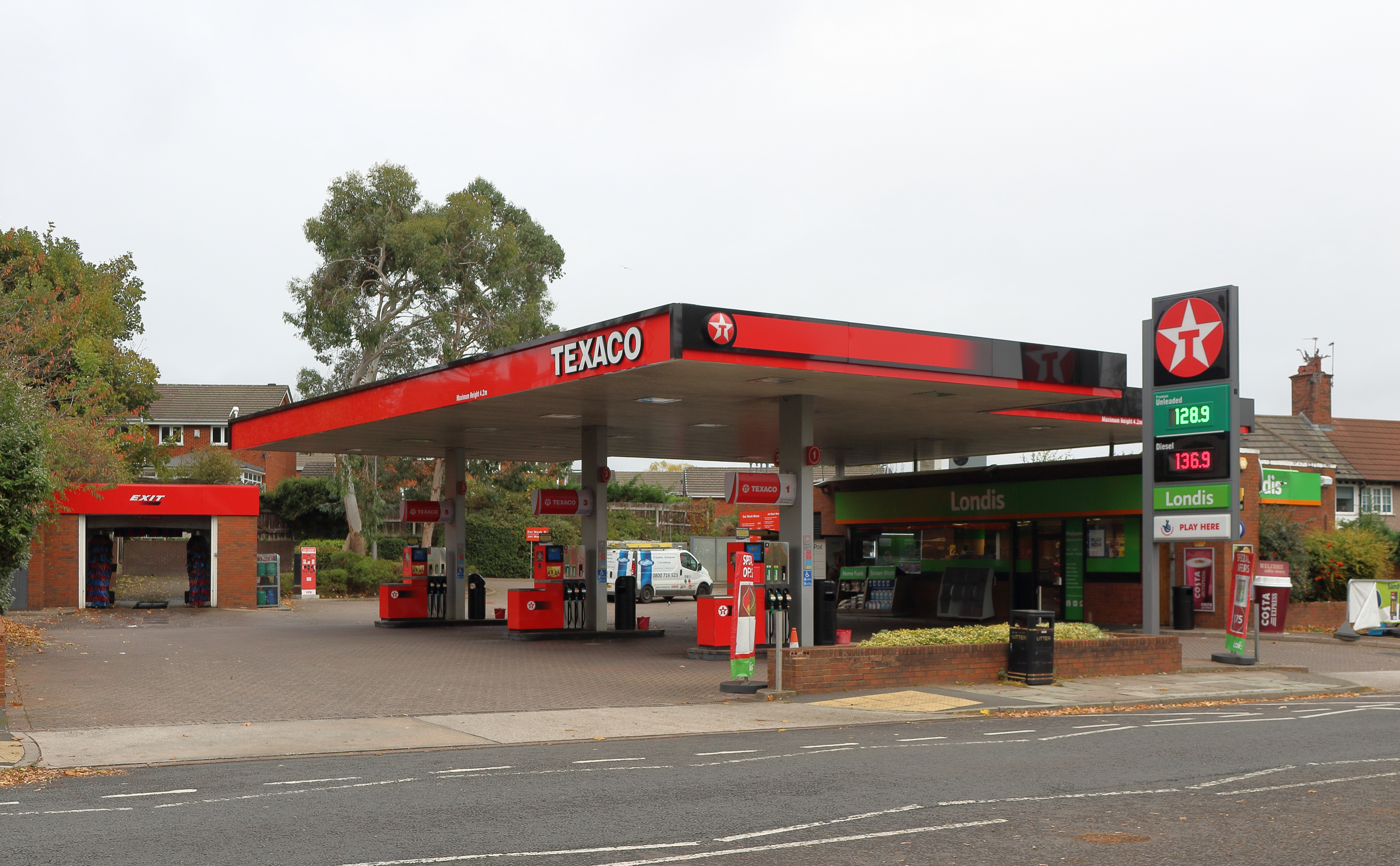 Texaco petrol station near Bebington railway station , with car wash and Londis store.